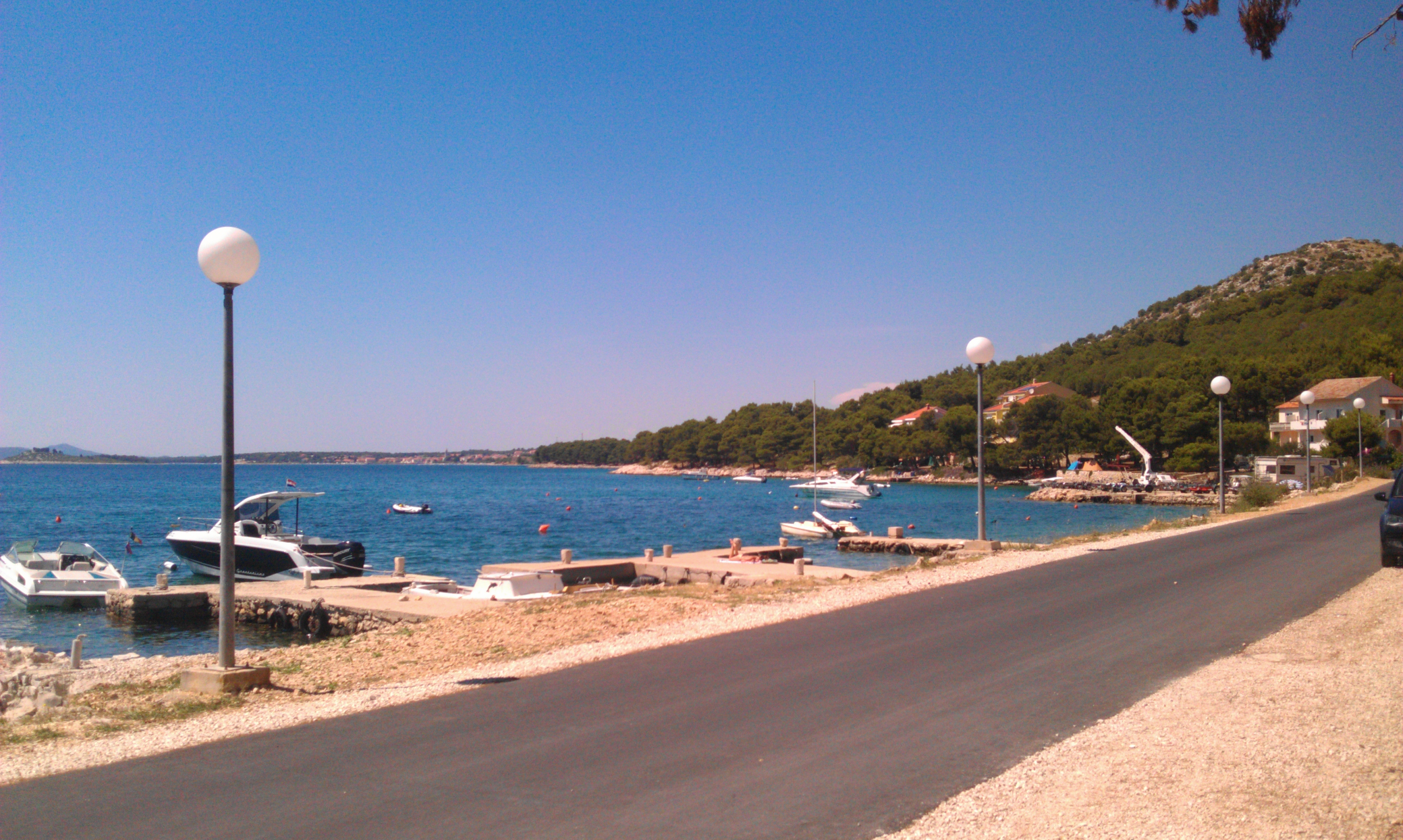 23211, Drage, Croatia